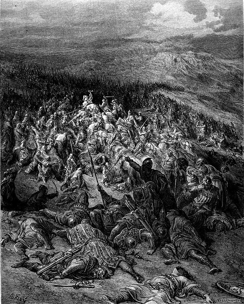 Crusades by Gustave Doré